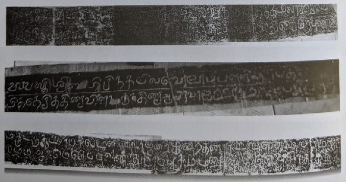 Vanavanmatevi-isvaram inscription, 11th century AD